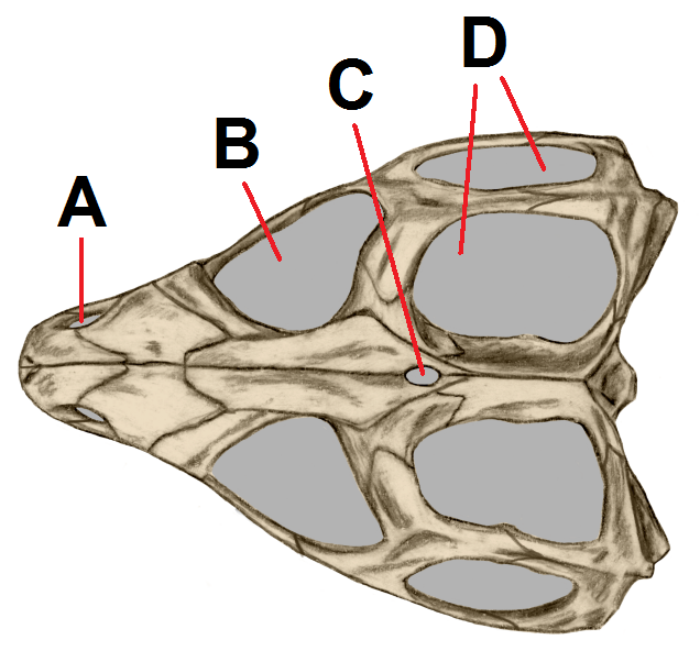 A schematic of the skull of the tuatara (Sphenodon), based on [1], [2]and [3]